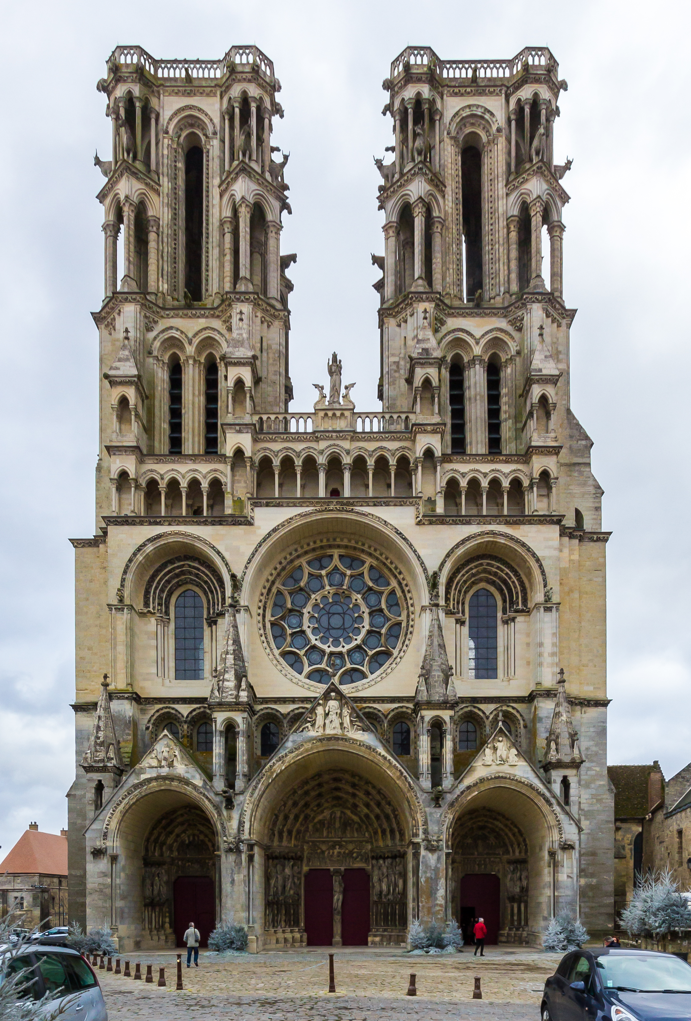 West facade of the Laon cathedral